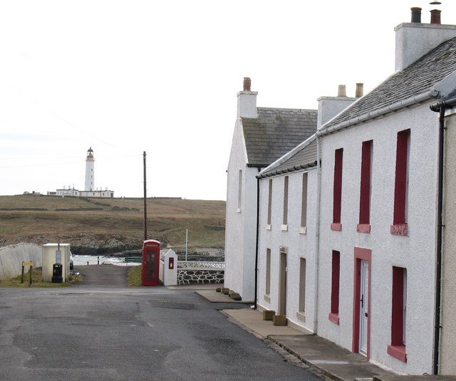 Port Wemyss is another small planned village and a 'twin' of Portnahaven. It was laid out in the 1830's by Walter Frederick Campbell, the village streets forming a 'D' pattern.